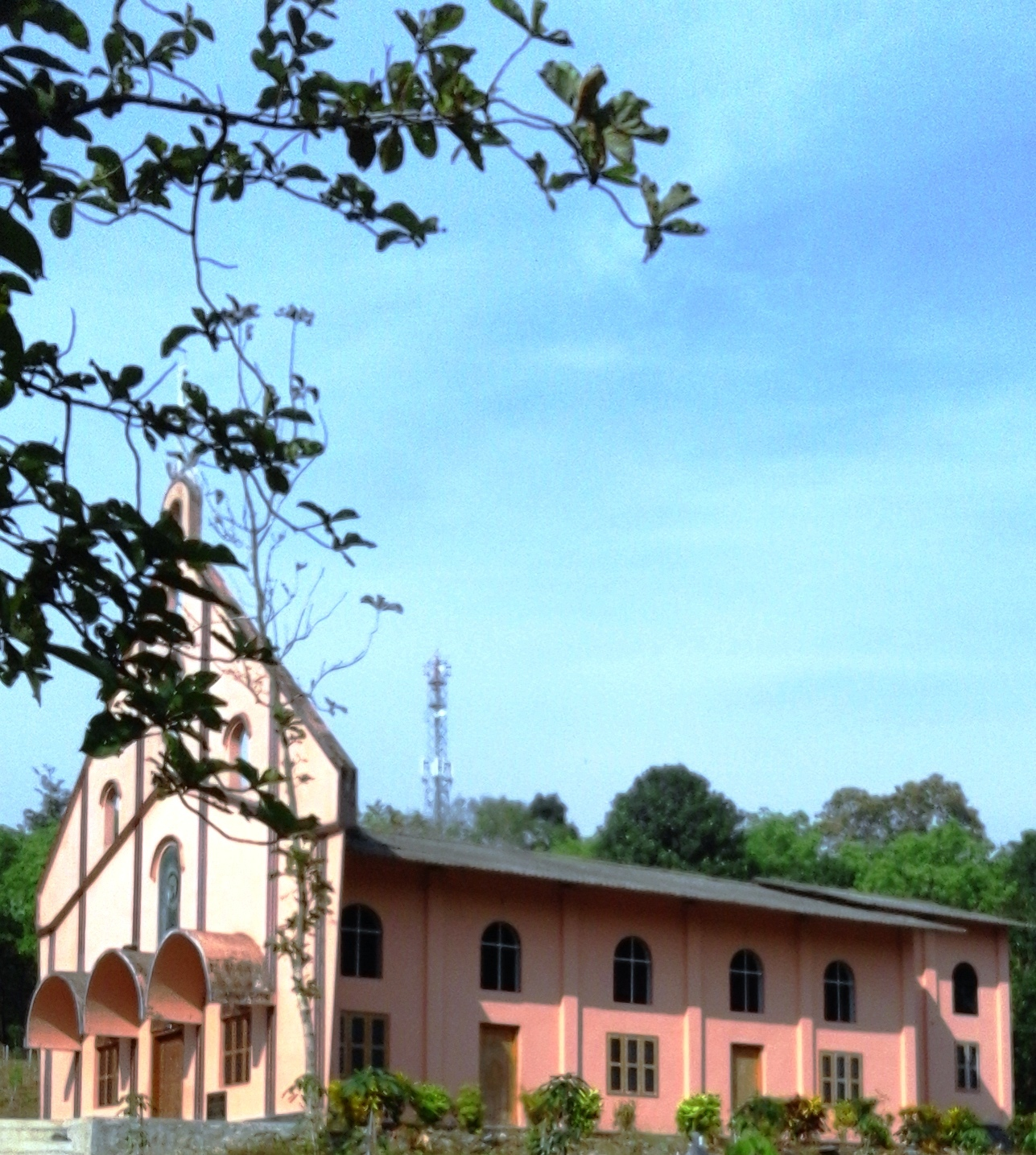 Munderi village, Pothukallu Town, Nilambur city, Malappuram District, Kerala province, India.